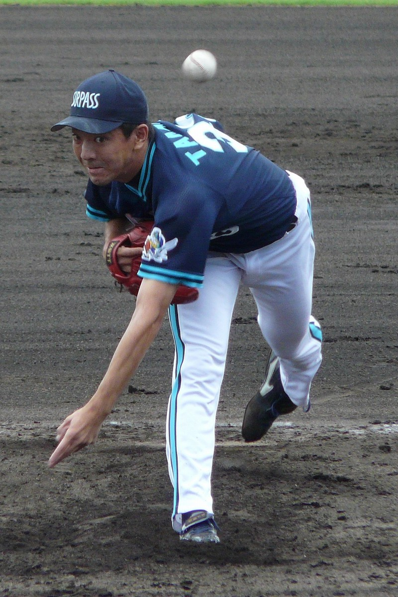 Yasunari Takagi, pitcher of the Surpass, at Hanshin Naruohama Baseball Ground.